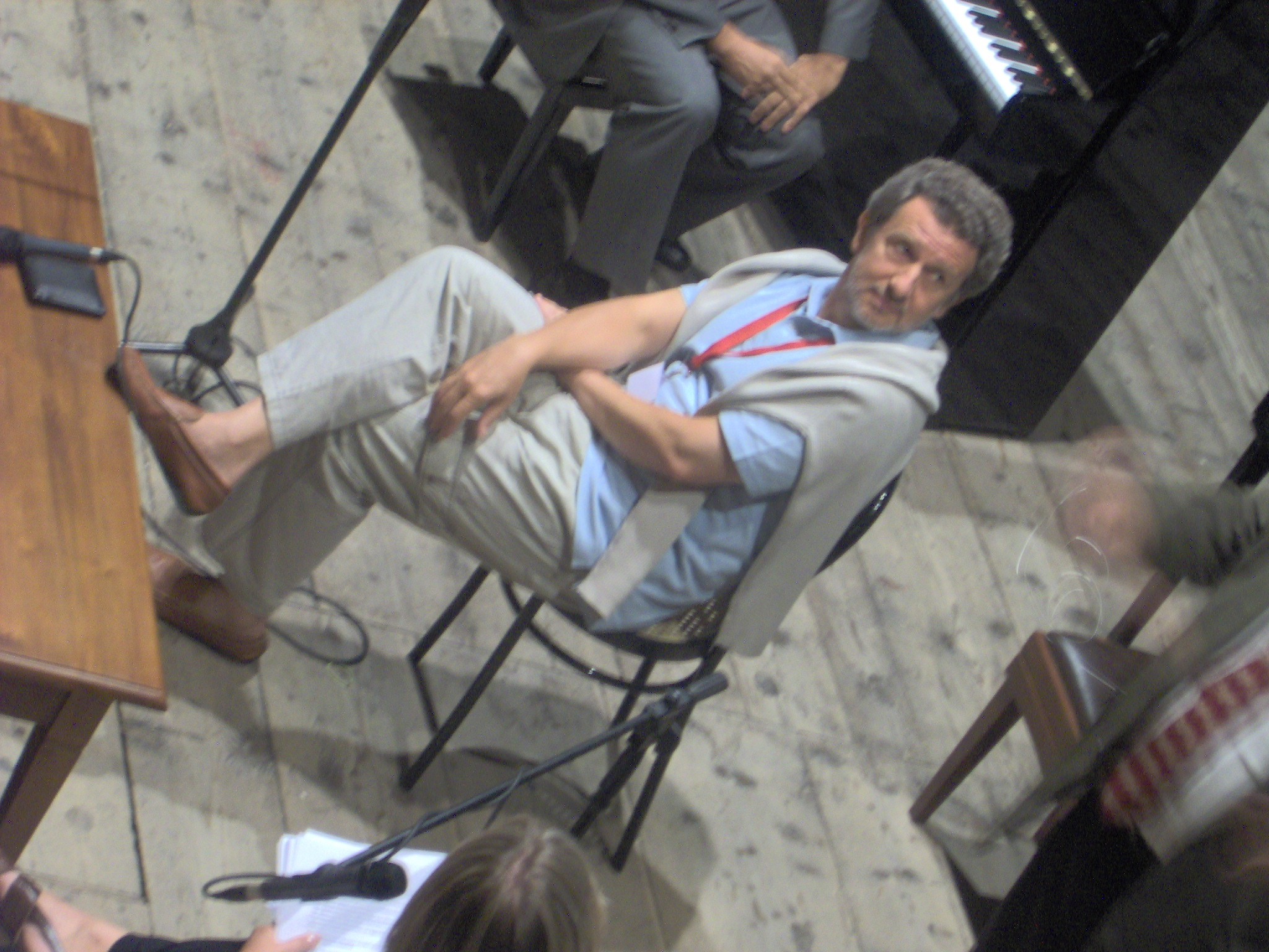 Piergiorgio Odifreddi (italian mathematician) at Festival della Mente